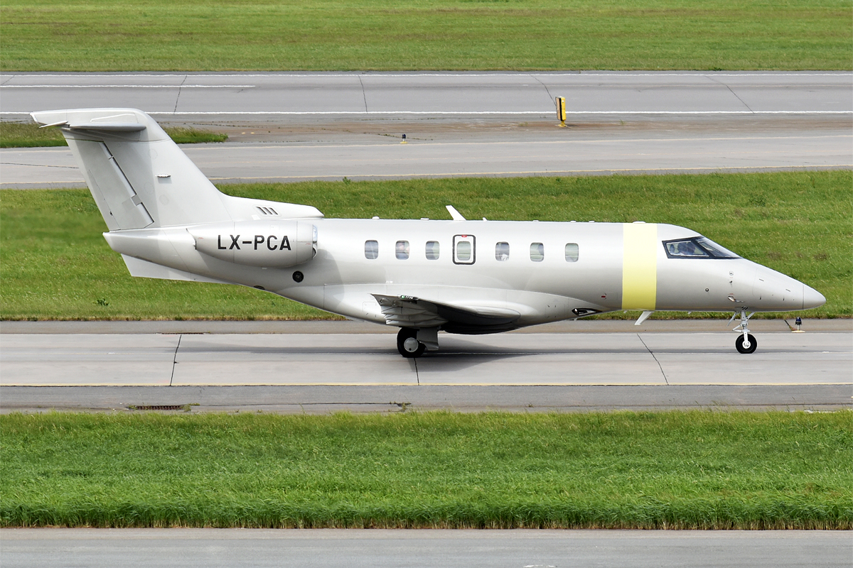 Jetfly Aviation, LX-PCA, Pilatus PC-24